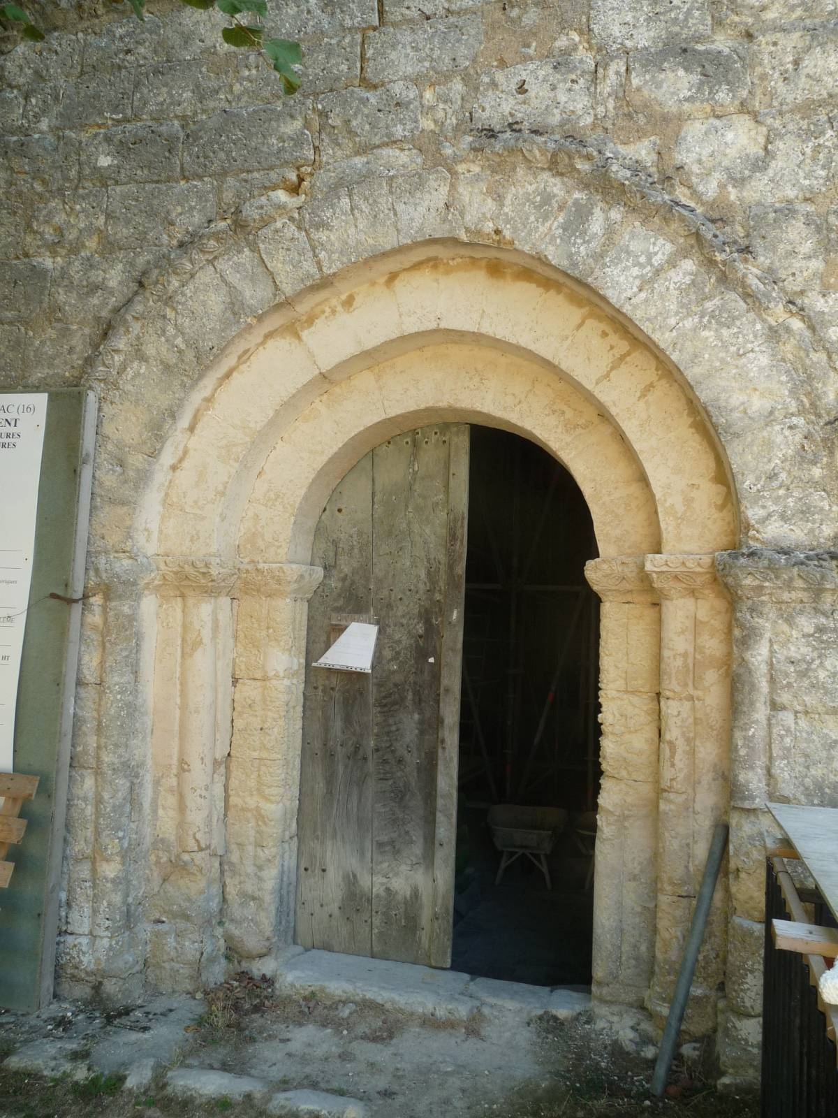 church of Médillac, Charente, SW France